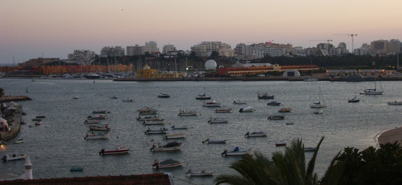 City of Portimão seen form Ferragudo